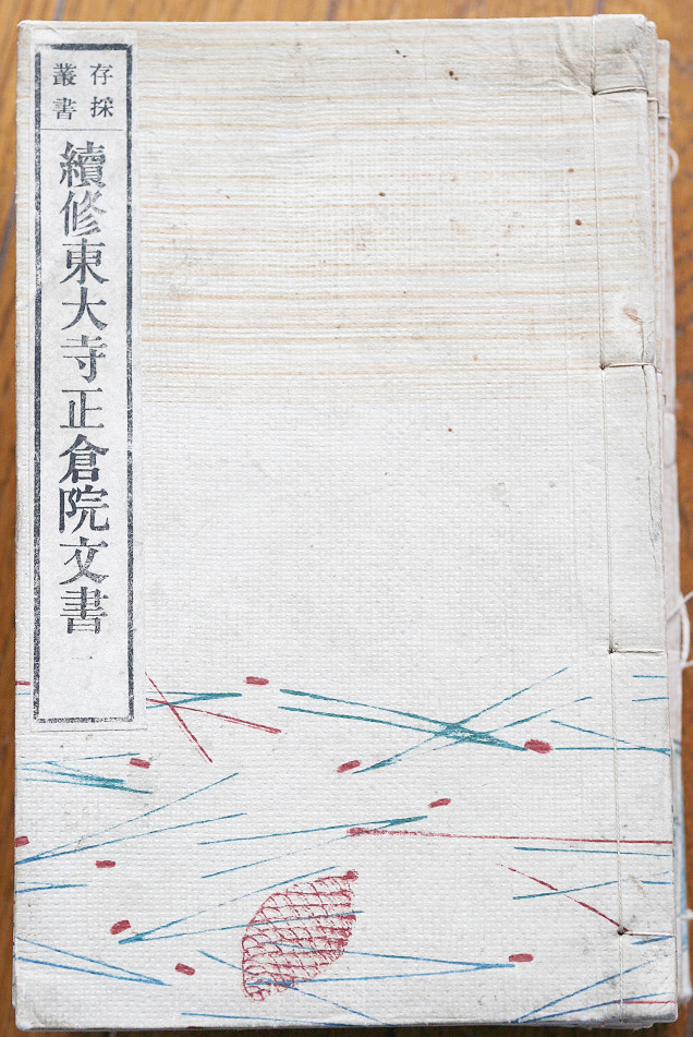 Publication of Shosoin Manuscript in 1885, ZONSAI SOSYO, pubilished by KONDO KEIZO, Tokyo, Japan